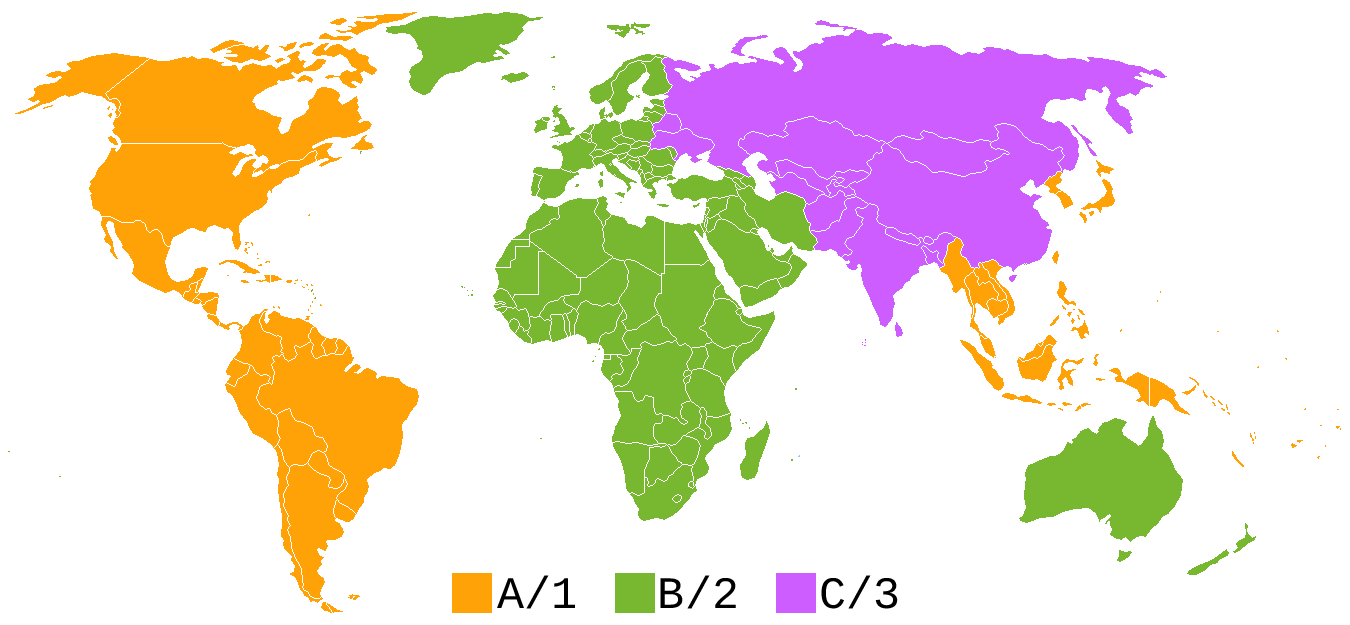 Regions of the world for the Blu-ray standard.